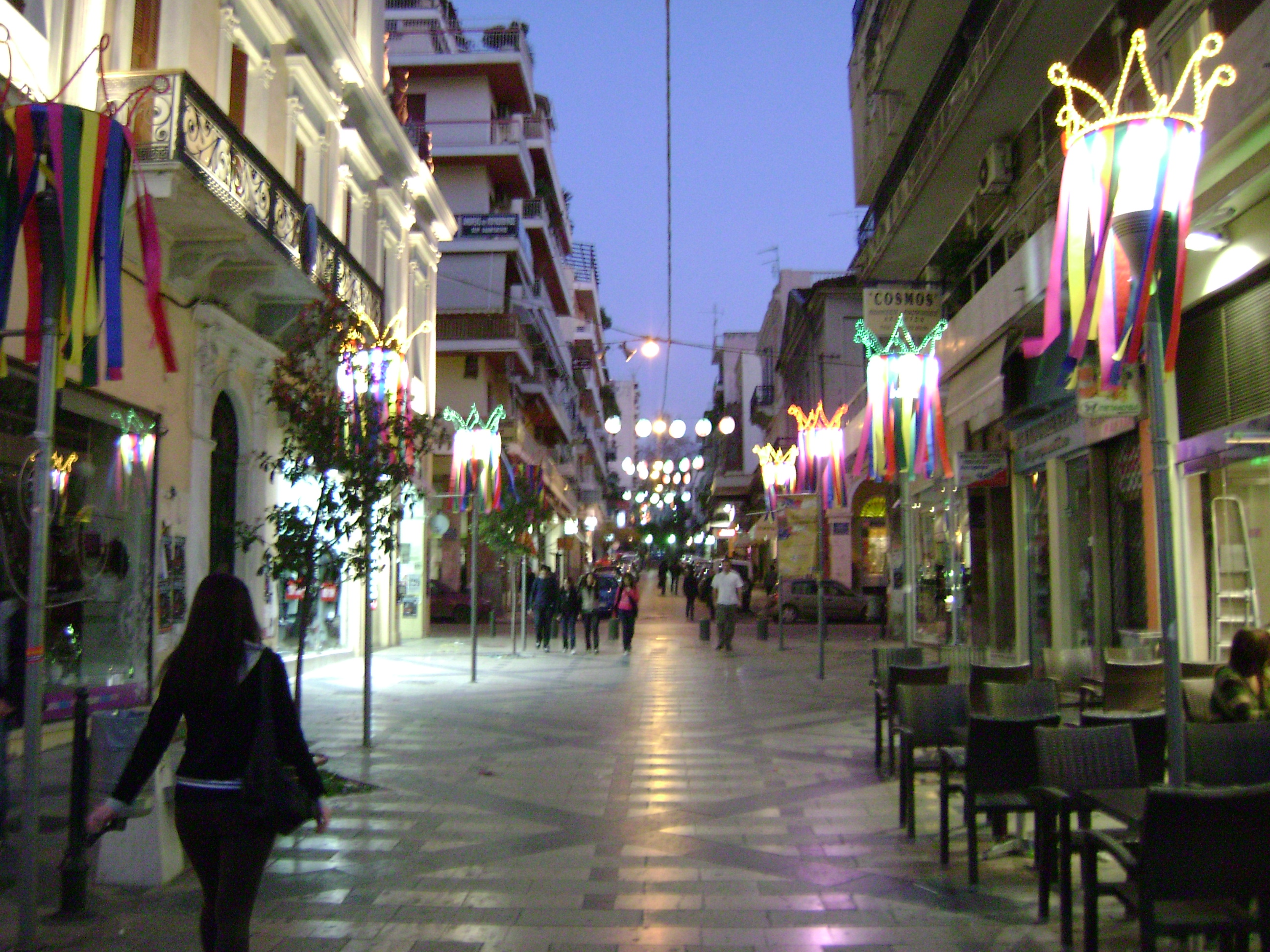 Yerokostopoulou street in Patra by night over the Carnival season.